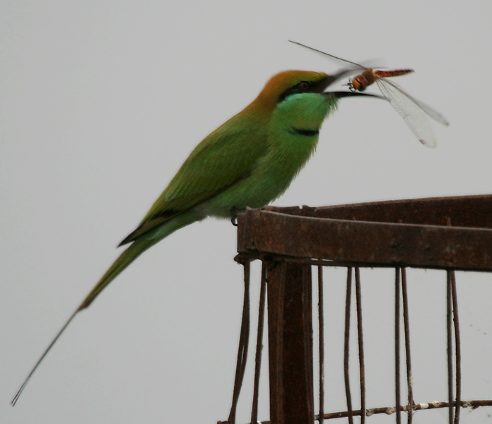 Little Green Bee-eater Merops orientalis in Hyderabad, India.